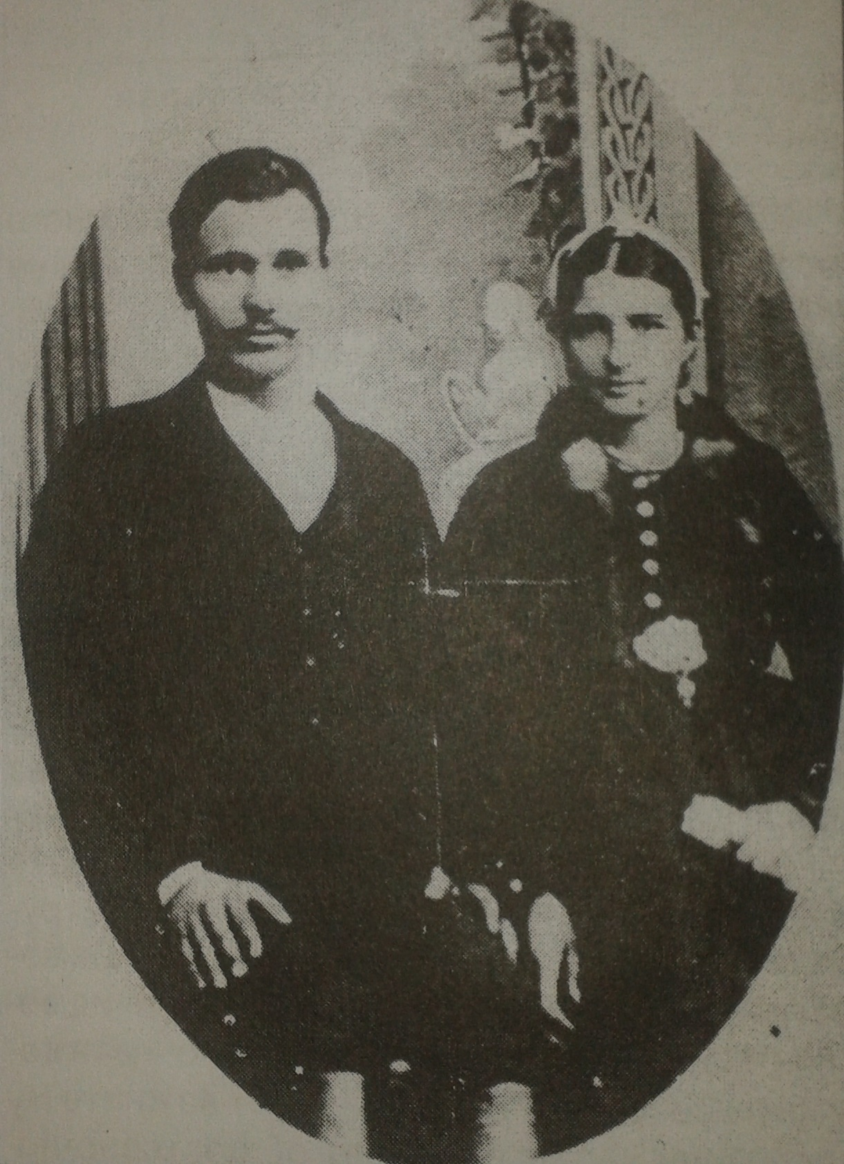 Spas and Fikia Harizanovi